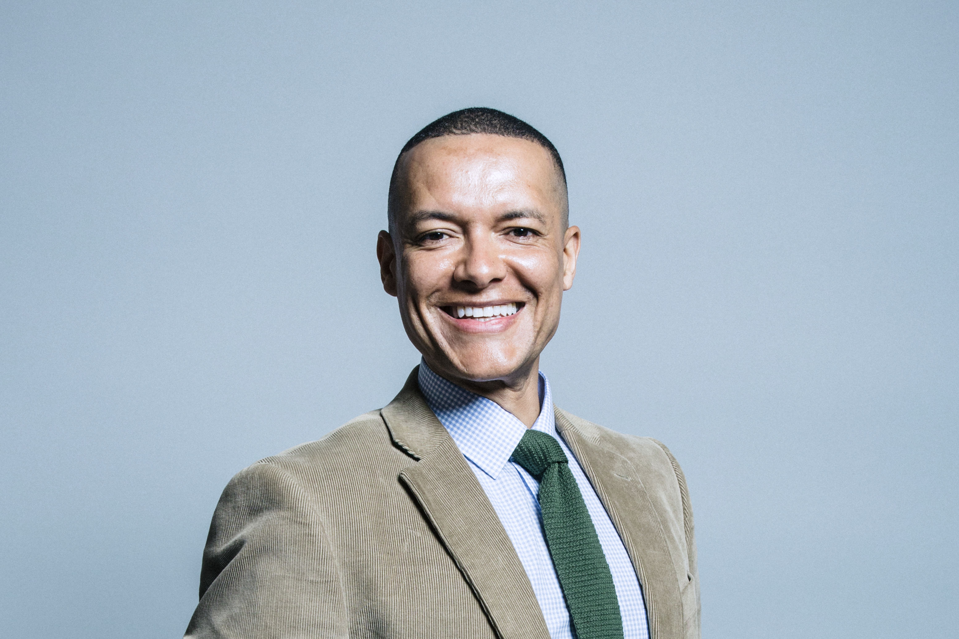 Official portrait of Clive Lewis